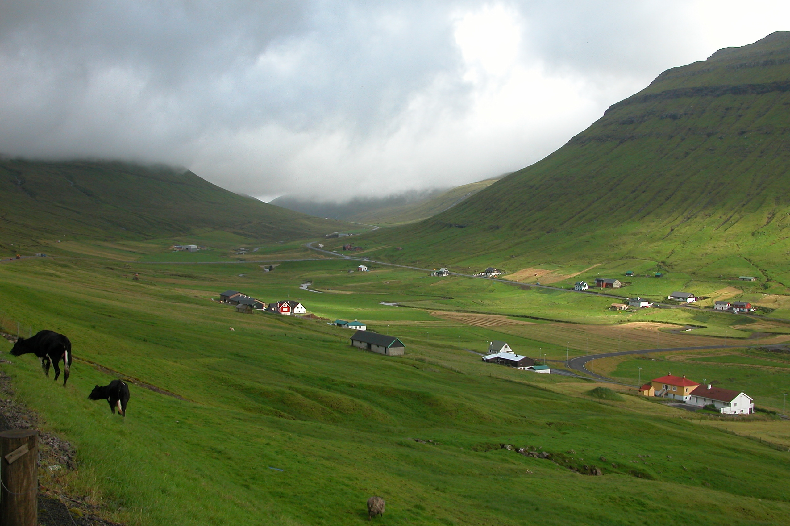 Signabøur on Streymoy, Faroe Islands